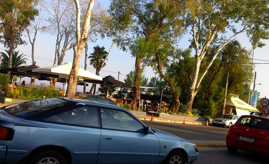 varkiza